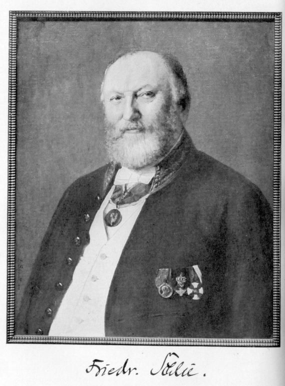 Portrait